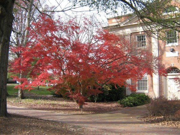 The Graham Memorial at the University of North Carolina at Chapel Hill.